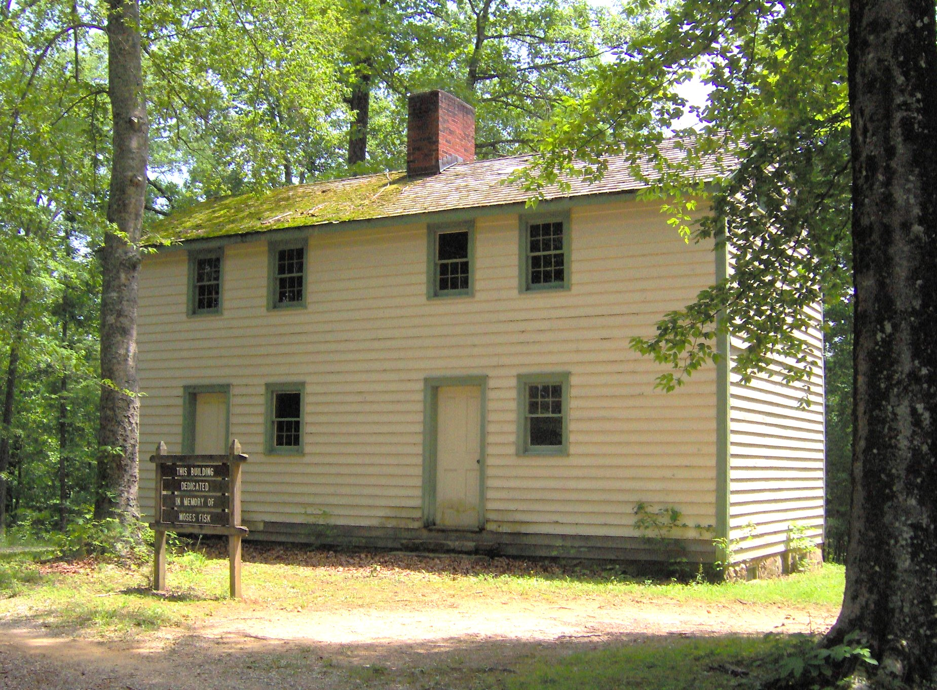 The Moses Fisk House at the entrance to Standing Stone State Forest in Overton County, Tennessee, in the southeastern United States. Fisk, an idealistic early pioneer in the area, built the house in the early 1800s.